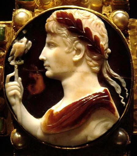 Cross of Lothair with Augustus cameo. The intersection of the cross is accented by a magnificent, three-layered sardonyx cameo. The slightly oval, antique cameo shows the turned to the left bust crowned with a laurel wreath of Emperor Augustus, who holds an eagle scepter in his right hand.